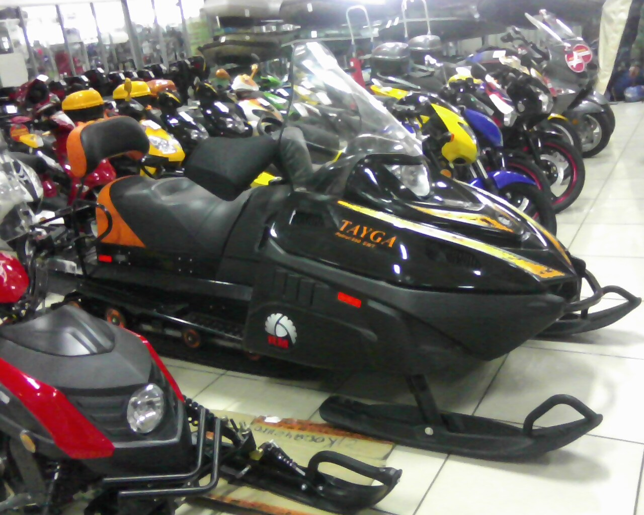 Snowmobiles in Russia